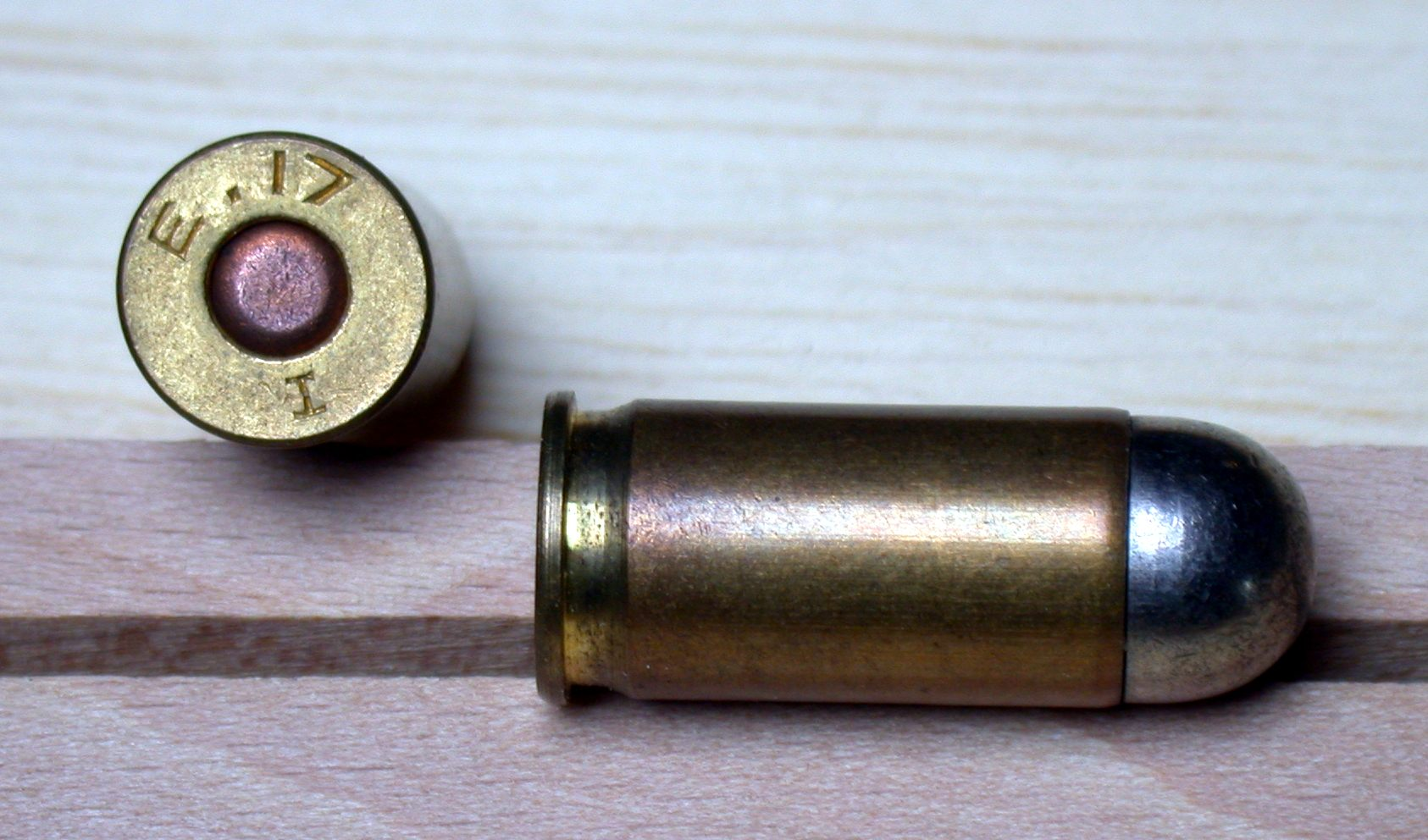 .455 Cartridge for the Webley and Colt 1911 Auto Pistol